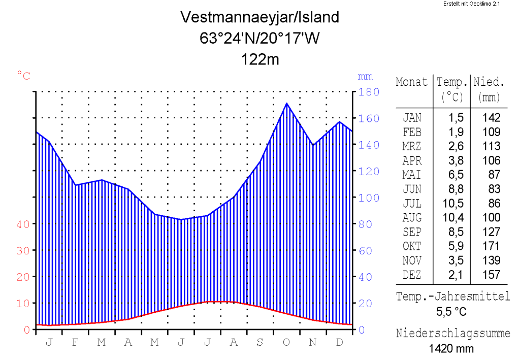 climate chart in the format by Walter and Lieth, metric, °Celsisus and millimeters, made with Geoklima 2.1